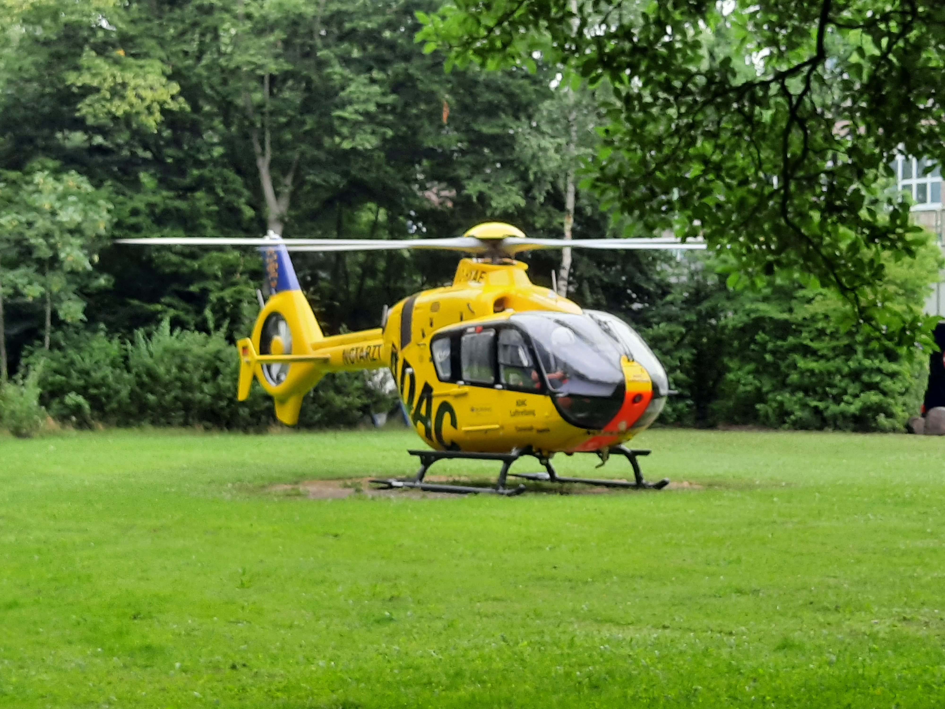 ADAC rescue helicopter at the Alstertal-Shopping center in Hamburg